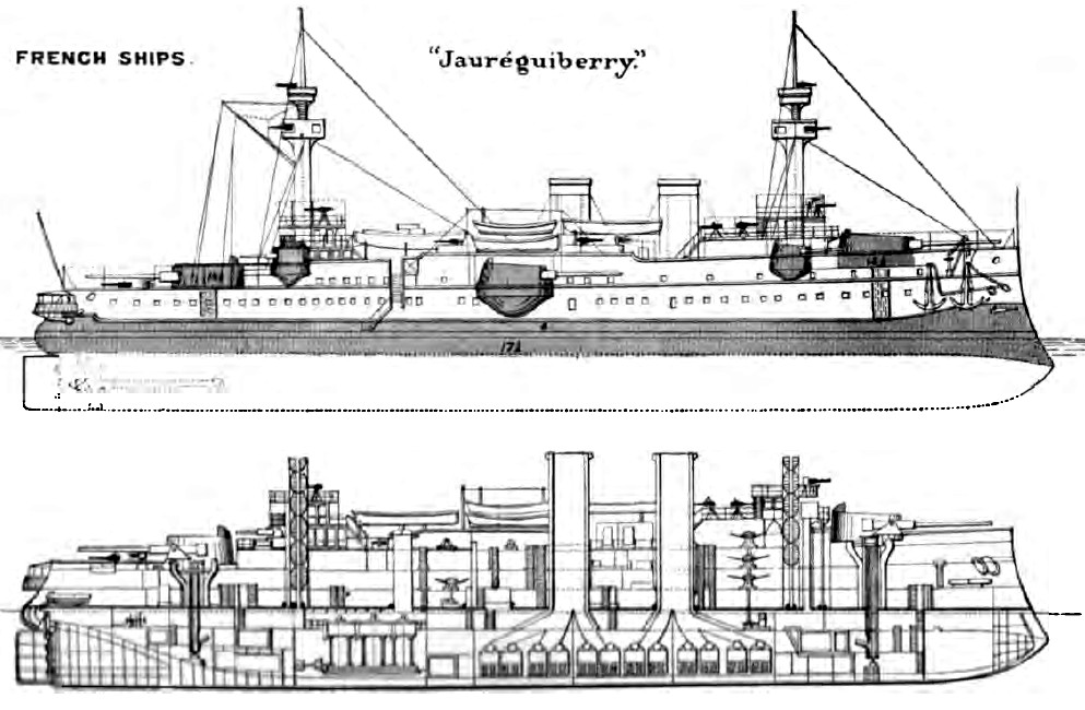 Right elevation diagrams showing external and internal layout of French battleship Jauréguiberry.